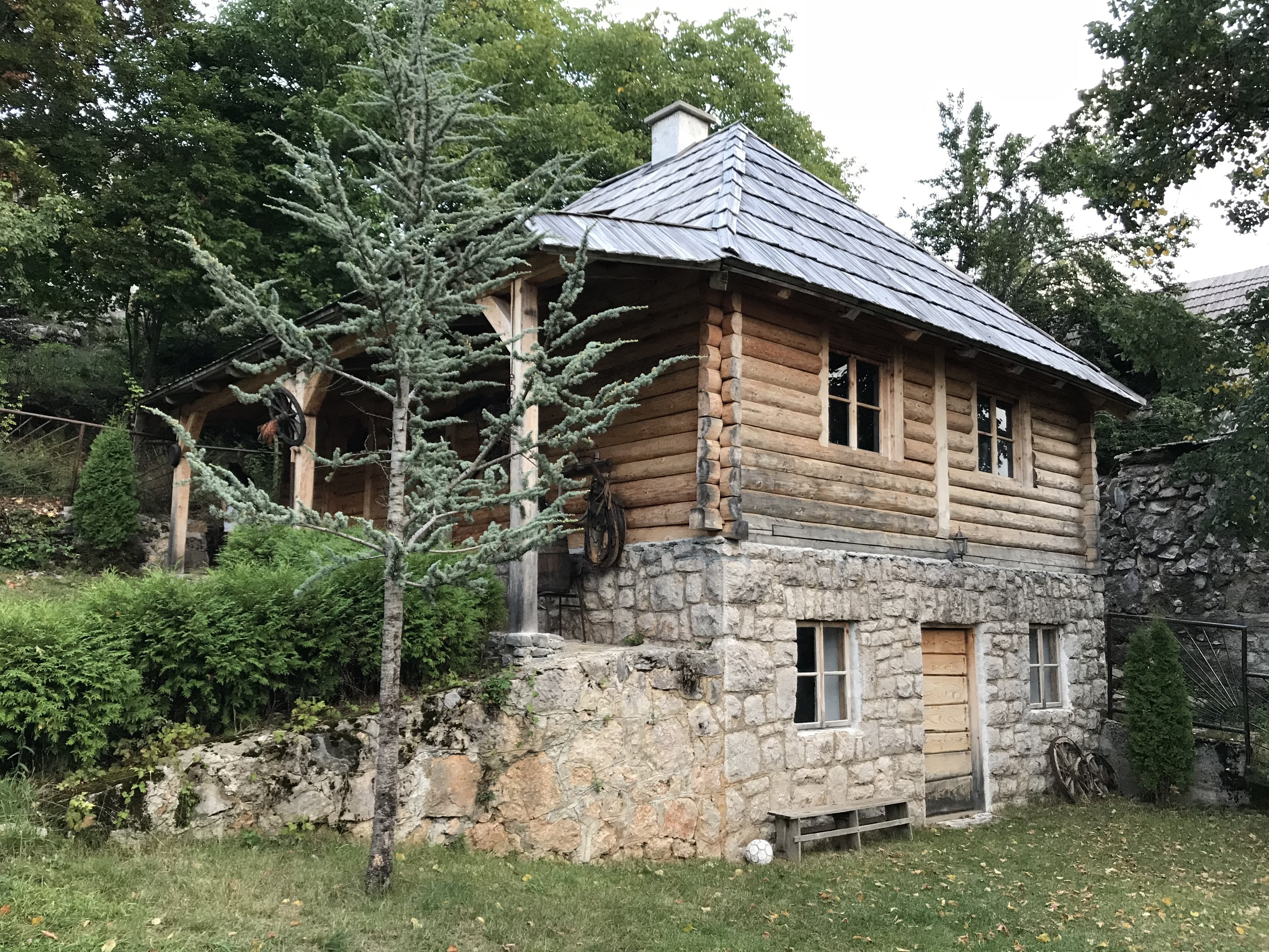 Born House of Gavrilo Princip in Obljaj, Kanton 10, Bosnia and Hercegovina.